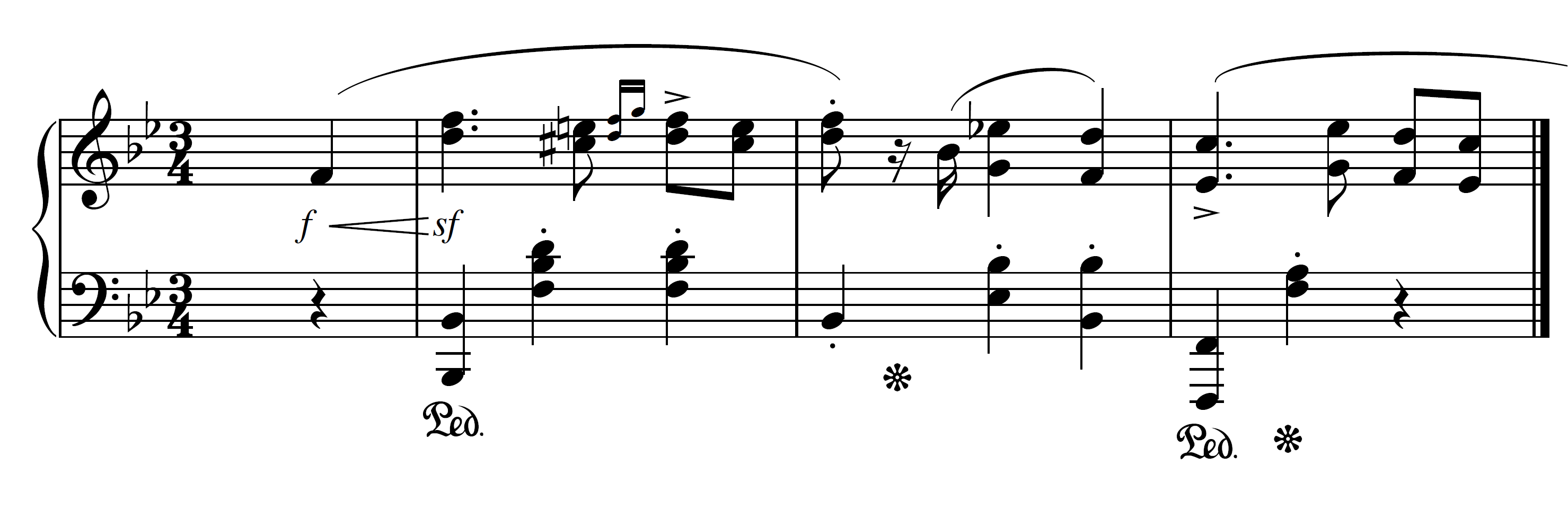 The first few bars of Chopin's Mazurka Opus 17 No 1